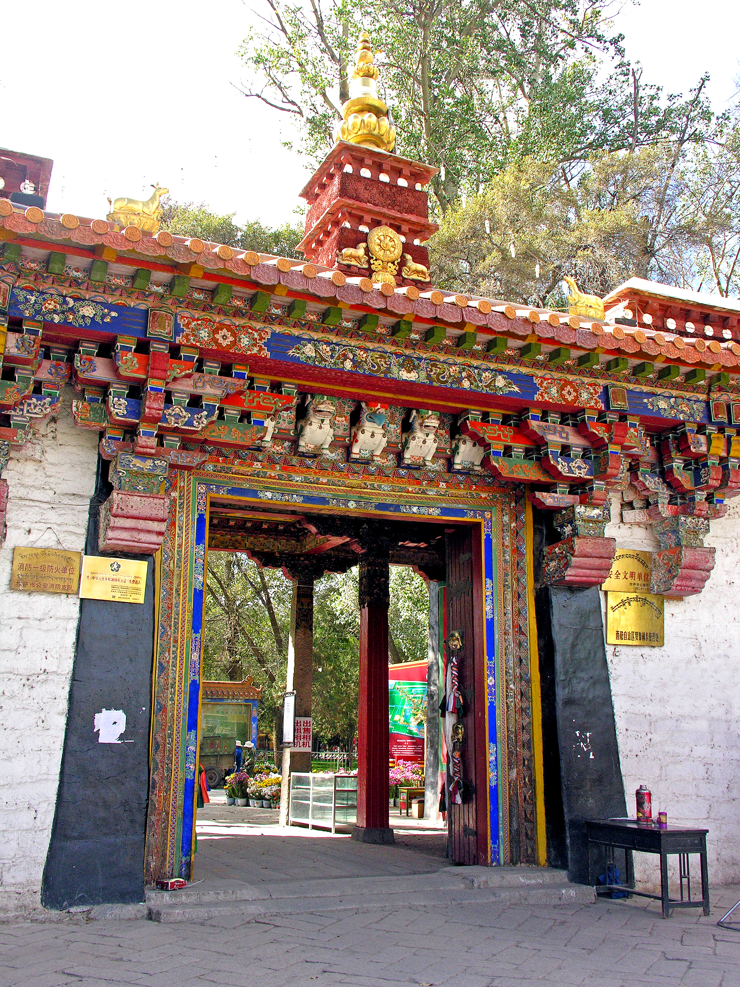 Summer Palace of the Dalai Lama (Norbu Lingka) in the western suburbs of Lhasa